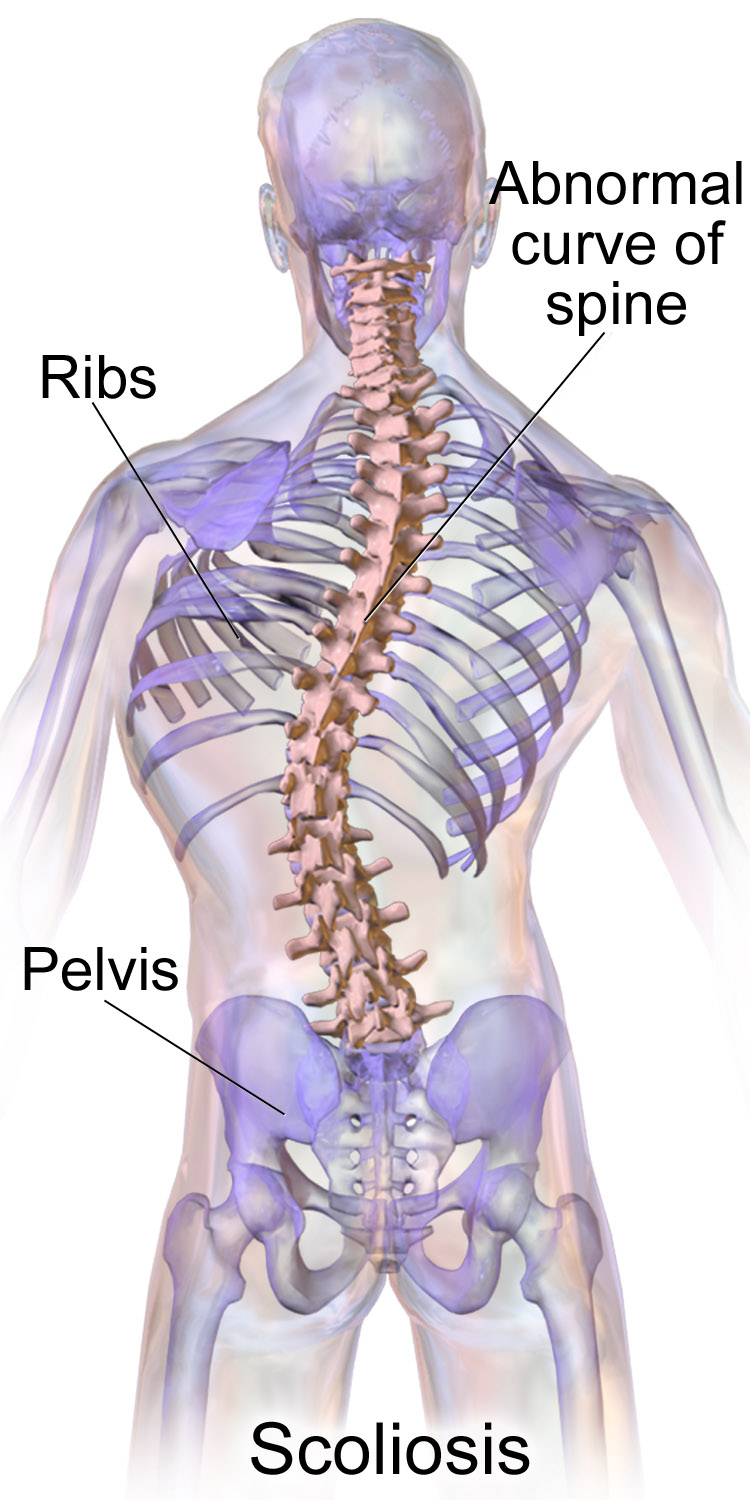 Scoliosis. See a full animation of this medical topic.